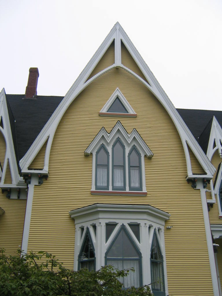 Yarmouth, Canada. This home at 57 William Street, known as the Job Hatfield House, is a designated heritage property. It was built in 1877-78 and was originally one of a pair.Gothic Revival house in Yarmouth, NS.